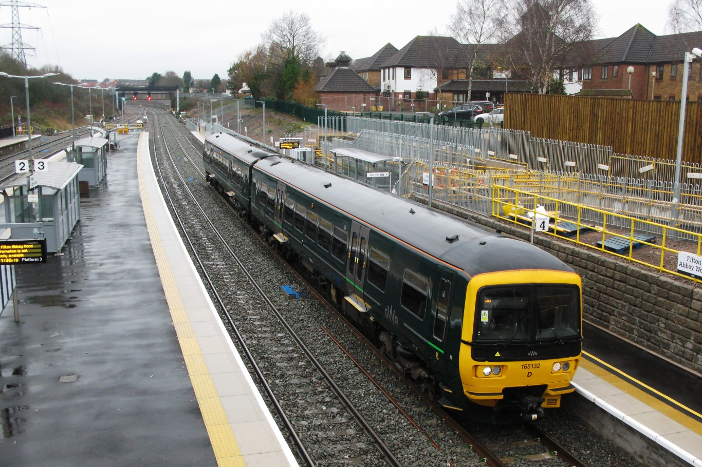 Great Western Railway 'Turbo' 165132 calls at Filton Abbey Wood's new platform 4 while on its way to Cardiff Central in December 2018.